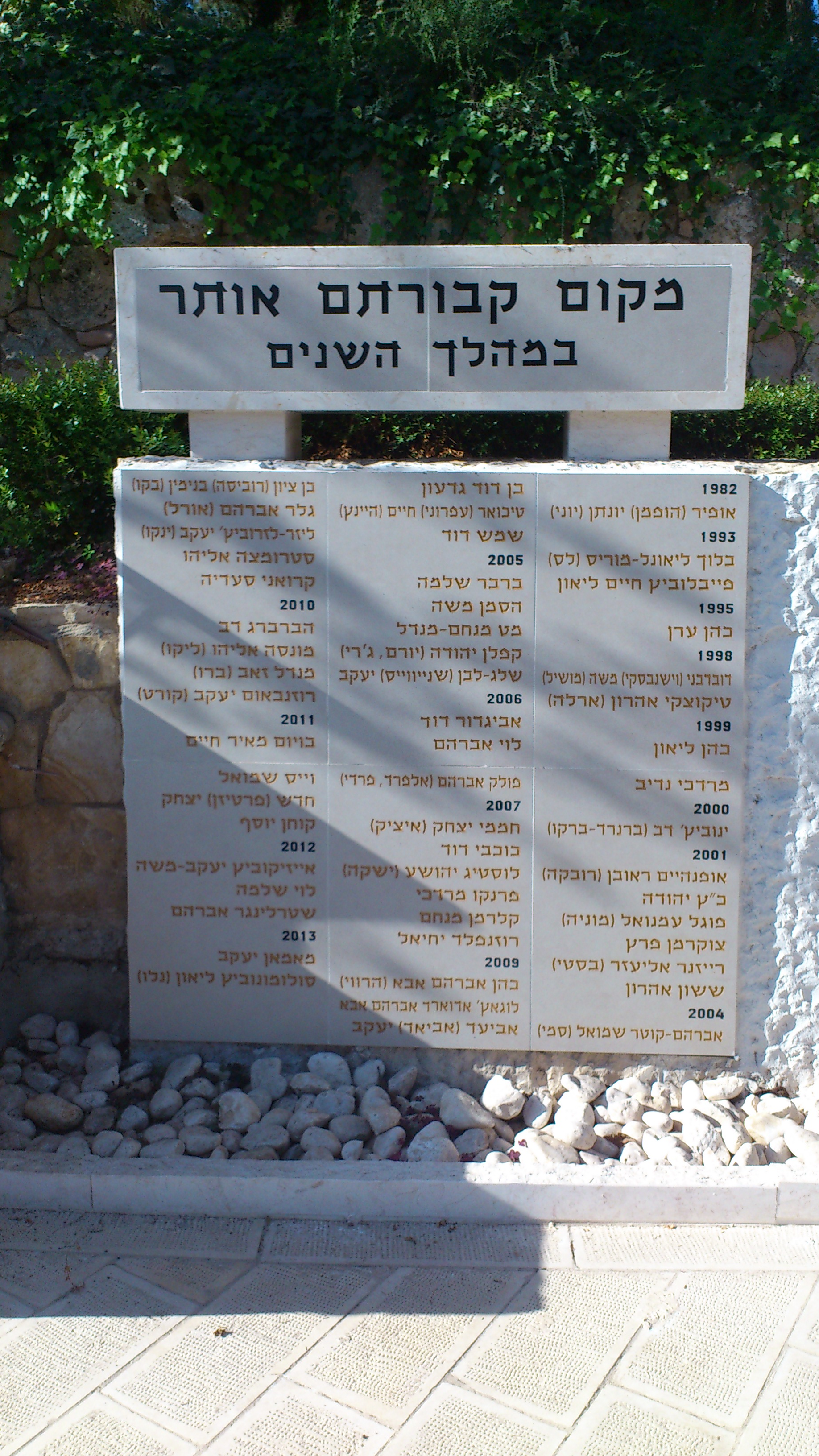 Category:Garden of the Missing in Action